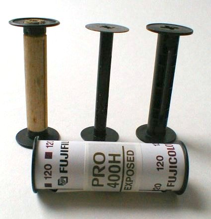 120 film spools with a roll of exposed 120 colour film. From left to right: Original 120 Kodak Brownie Spool, a 620 Kodak spool and a modern plastic Ilford 120 spool.